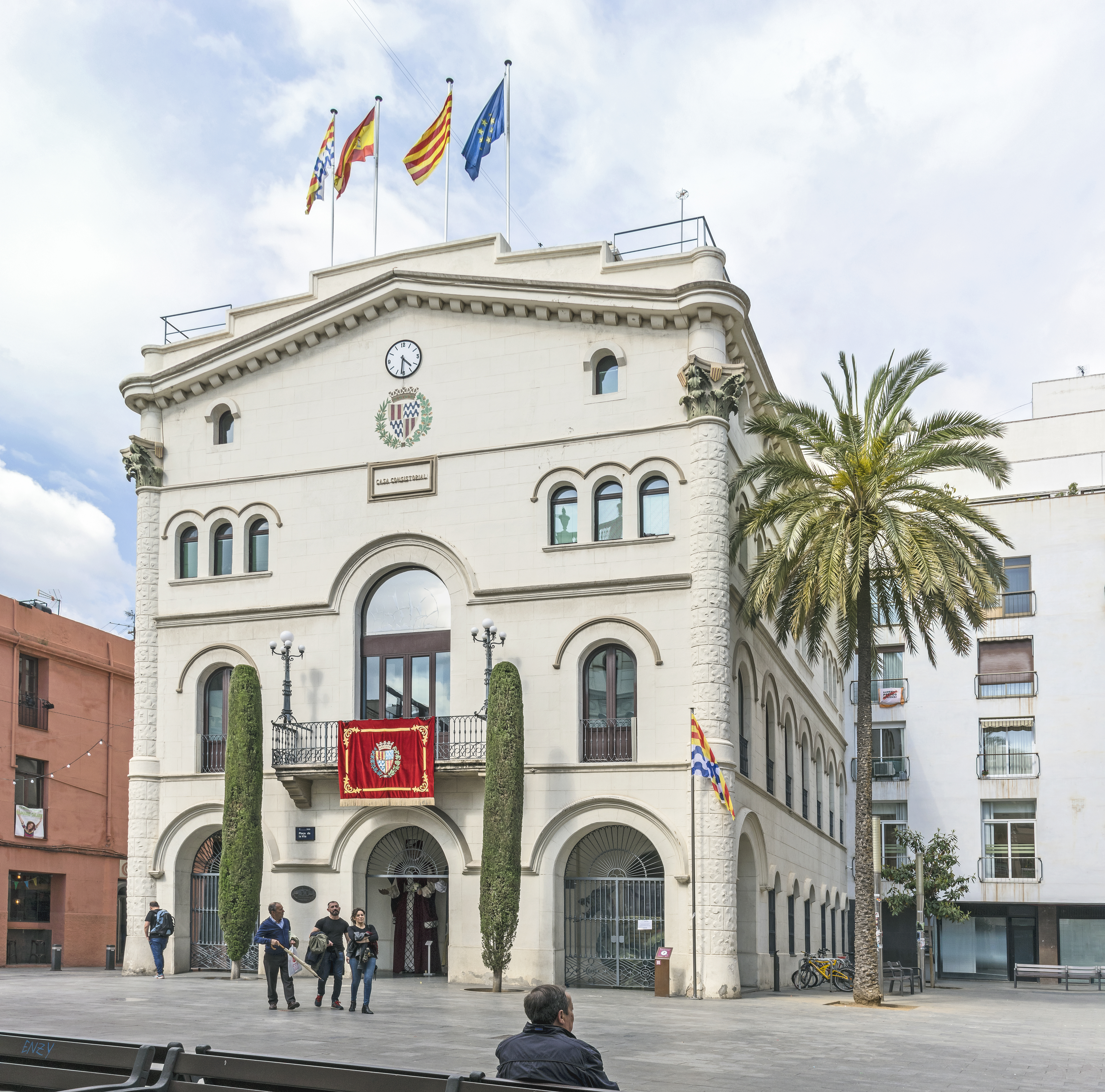 The town hall of Badalona (Catalonia, Spain) by the architect Francisco de Paula del Villar y Lozano (1876).